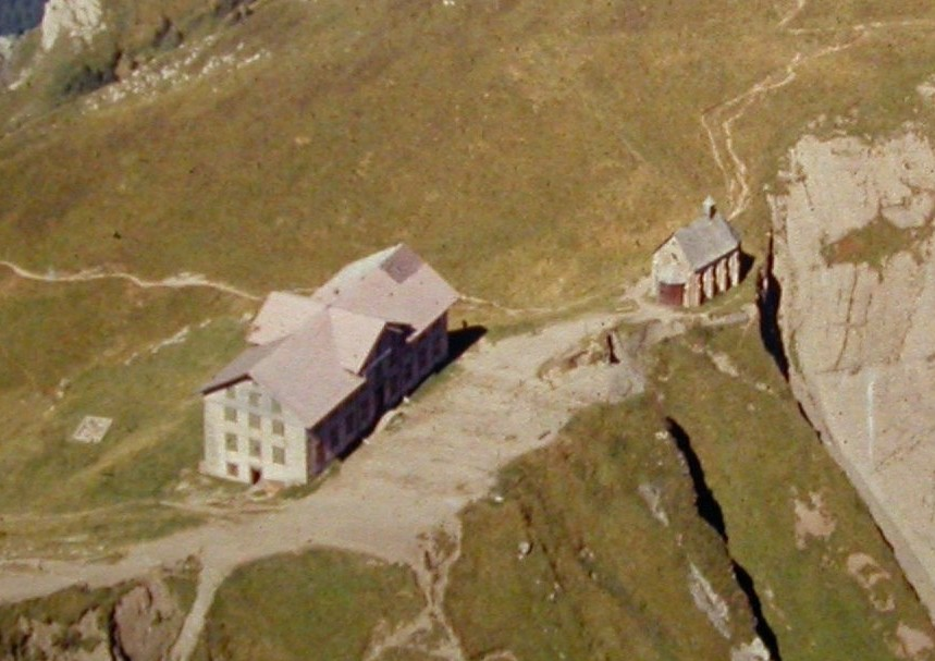 On Pilatus in 1966 - view to Hotel Klimsenhorn